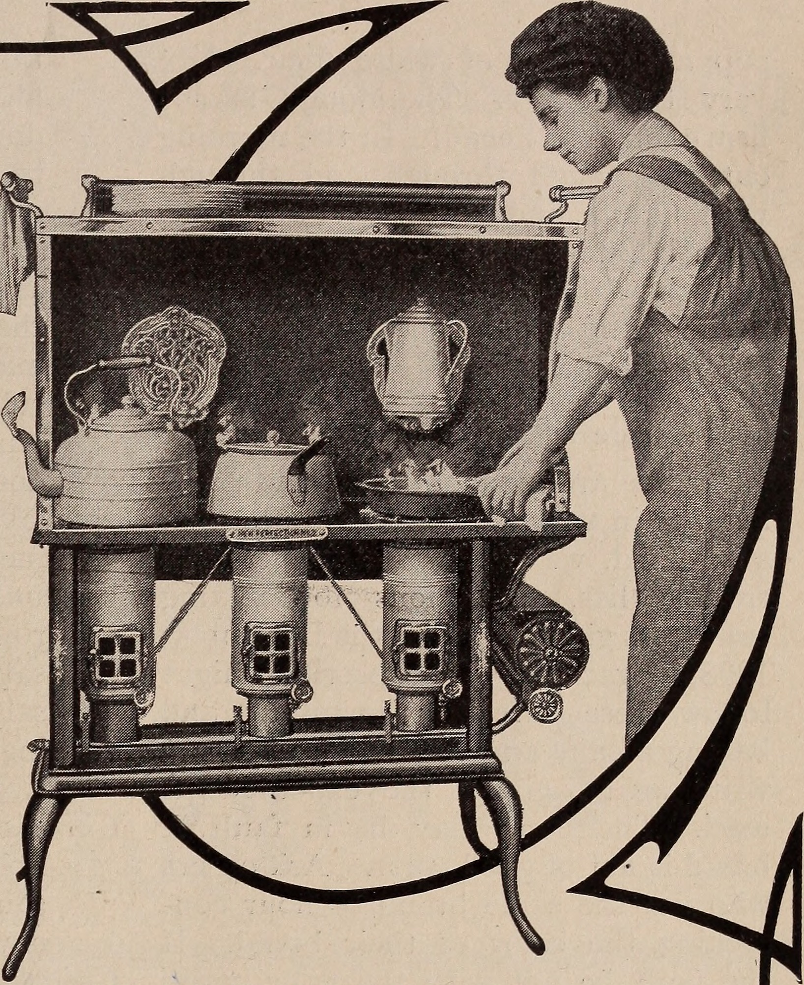 Title: The Boston Cooking School magazine of culinary science and domestic economics Year: 1896 (1890s) Authors: Hill, Janet McKenzie, 1852-1933, ed Boston Cooking School (Boston, Mass.) Subjects: Home economics Cooking Publisher: Boston : Boston Cooking-School Magazine Text Appearing Before Image: eby cooking two teaspoonfuls of corn-starch in a cup of boiling water. Thencarefully fill the cross with cinnamonand sugar, mixed together, piling themixture up well. Return to the ovento dry the glaze. Query 1458. — Recipe for good GrahamBread. What is the trouble with my breadand cake? The cake is not light, often, andwhen it is light the holes are large, and thebread is not white. Graham Bread Soften one-third a cake of compressedyeast in half a cup of lukewarmwater; add one cup and a fourth ofscalded-and-cooled milk, one-fourth acup of molasses, two tablespoonfuls ofbutter and one teaspoonful of salt;mix thoroughly, then stir in two cupsand one-half of graham flour and one ADVERTISEMENTS A HomeComfort Stove Have you solved the Home Comfort prob-lem for this coming summer? Are you planning to putthe coal range out of com-mission ? Will you do the familyboiling, stewing and fryingin a sane and restful man-ner over a stove that doesnot overheat the kitchen? You can do all this with Text Appearing After Image: the NEW PERFECTION Wick Blue Flame Oil Cook-Stove The New Perfection is different from all other oil stoves. It hasa substantial CABINET TOP like the modern coal range, witha commodious shelf for warming plates and keeping food hot aftercooked—also drop shelves on which the coffee pot or teapot maybe placed after removing from burner—every convenience, evento bars for holding towels. Nothing adds more to the pleasure ofa summer home than a New Perfection Oil Cook-Stove in thekitchen. Made in three sizes. Can be had either with or with-out Cabinet Top. If not at your dealers, write our nearest agency.